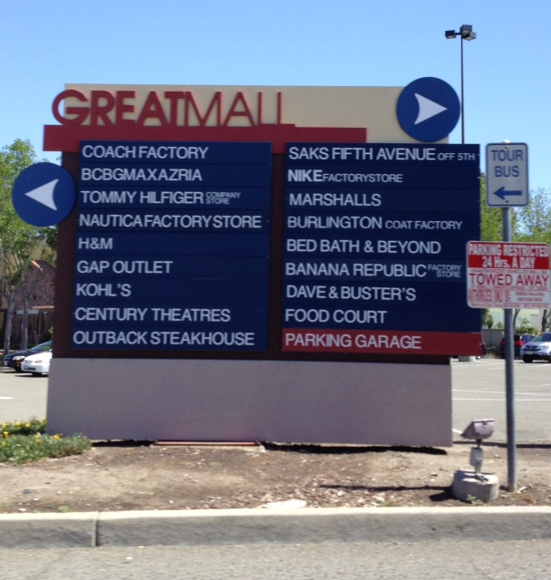 A sign at Great Mall in San Jose that directs shoppers to the various stores in the mall.